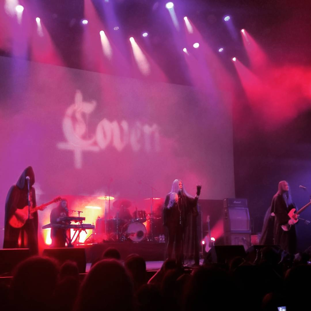 Rock band Coven performing live at Roadburn 2017.